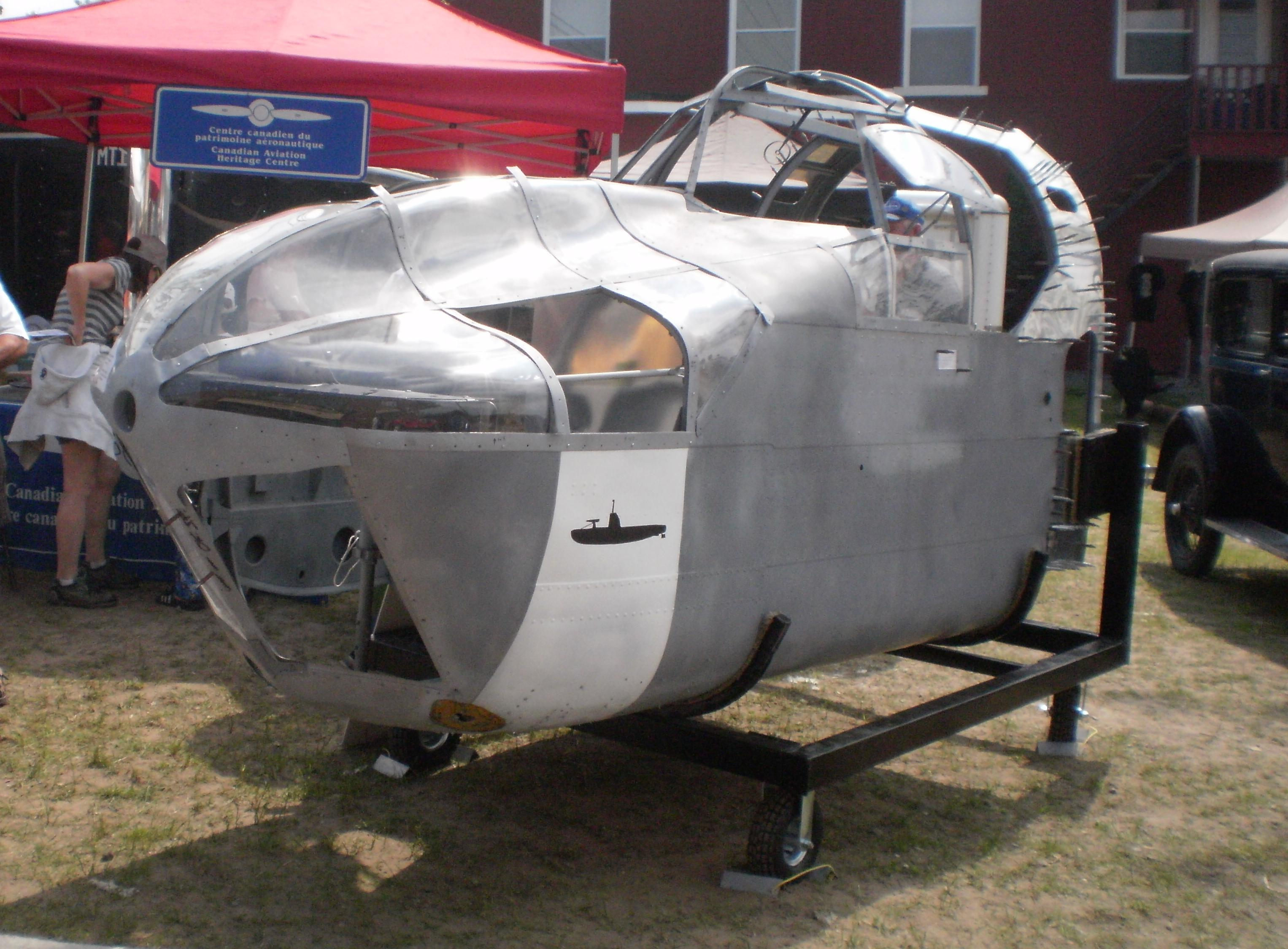 Bristol Fairchild Bolingbroke photographed in Ste. Anne De Bellevue, Quebec, Canada at Crusin' At The Boardwalk 2011.